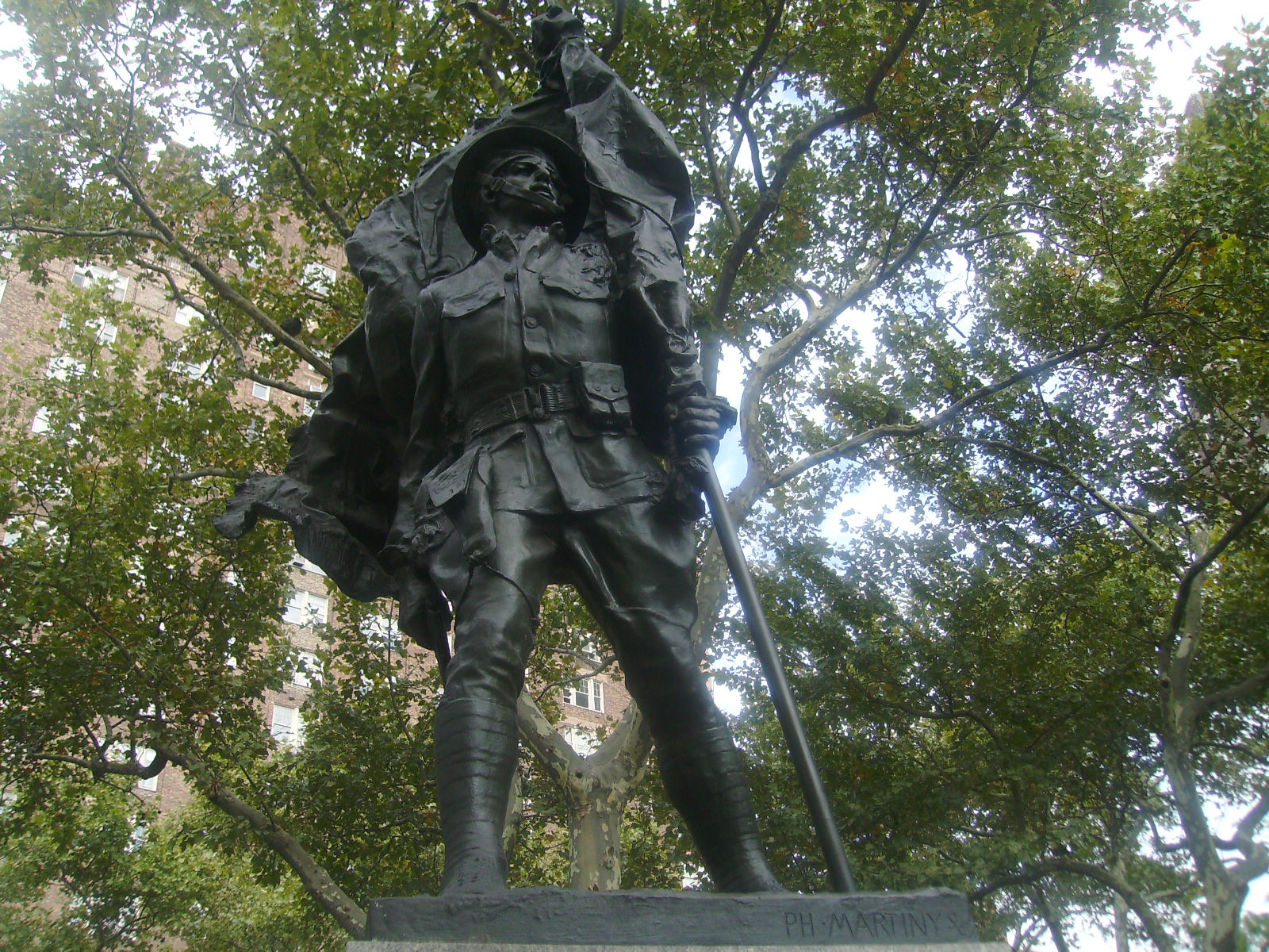 This photo is of Wikis Take Manhattan goal code F27, Abingdon Square Park. Some sculpture, by some sculptor, apparently of Officer Mossman, and by Sculptor PH Martigny. Location: Abingdon Square, Manhattan, New York City, USA.